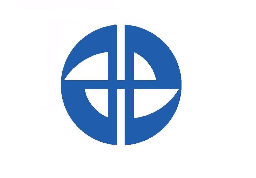 Flag of Miyoshi Aichi